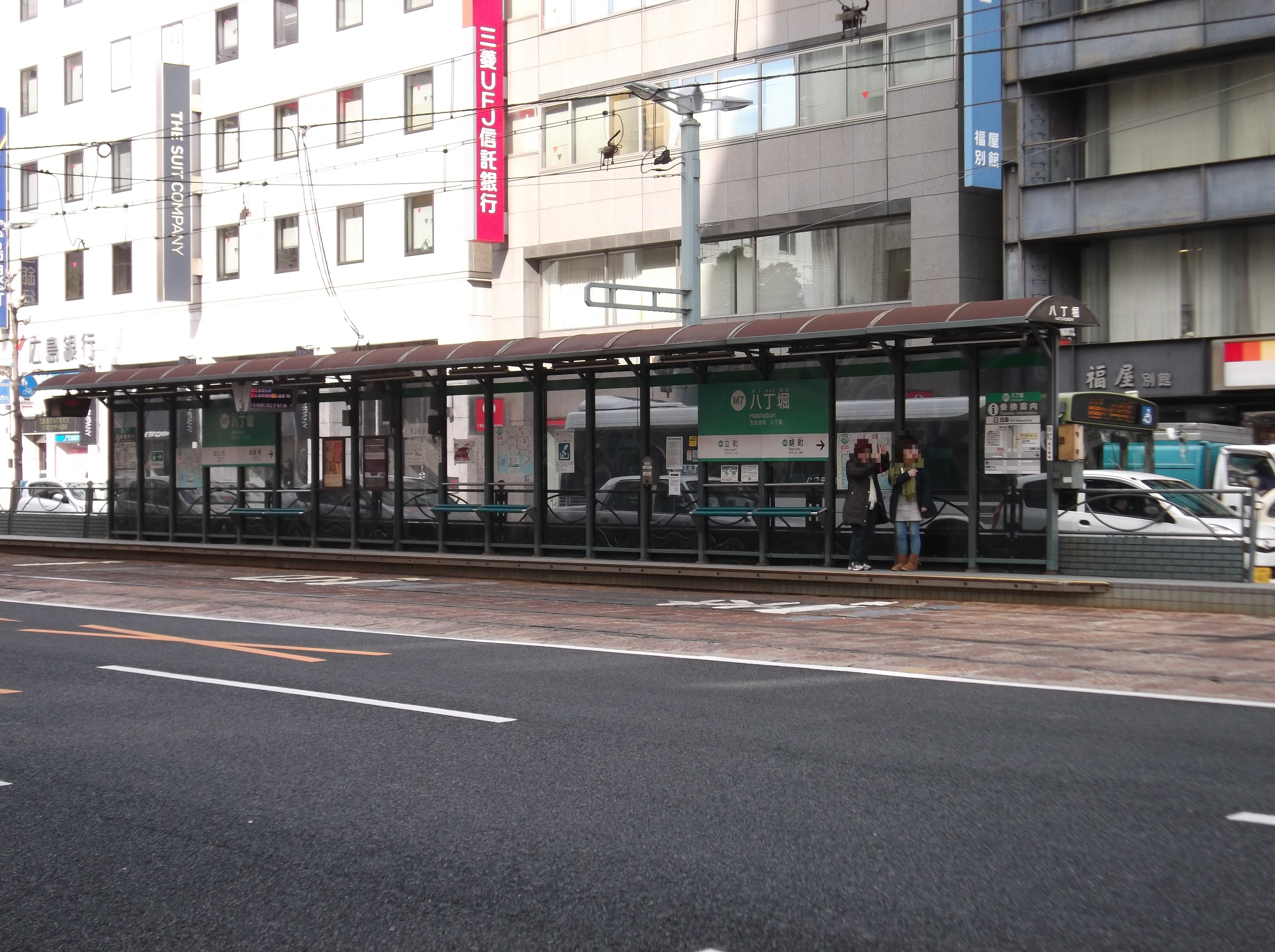 Hatchobori Sttaion, platform for Hiroshima